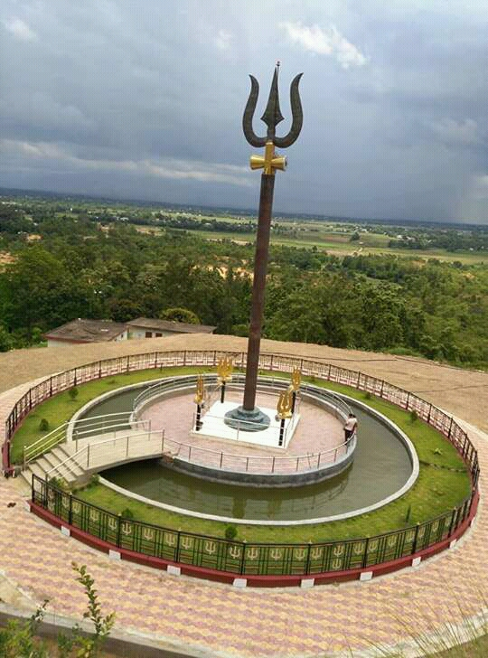 Located at Dharpani Dang Nepal and is the main attractions place for internal pilgrims